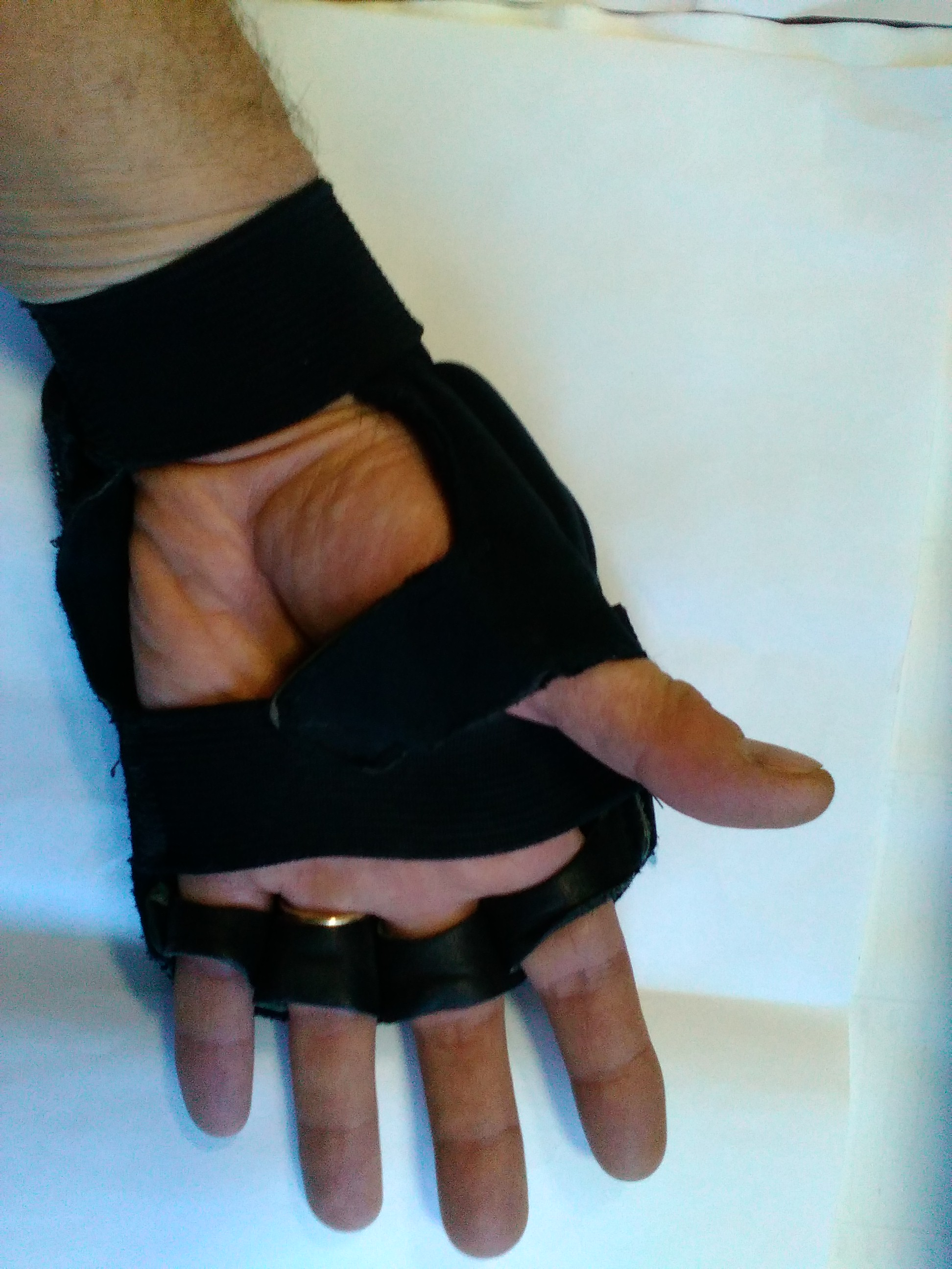 The rear of a football glove